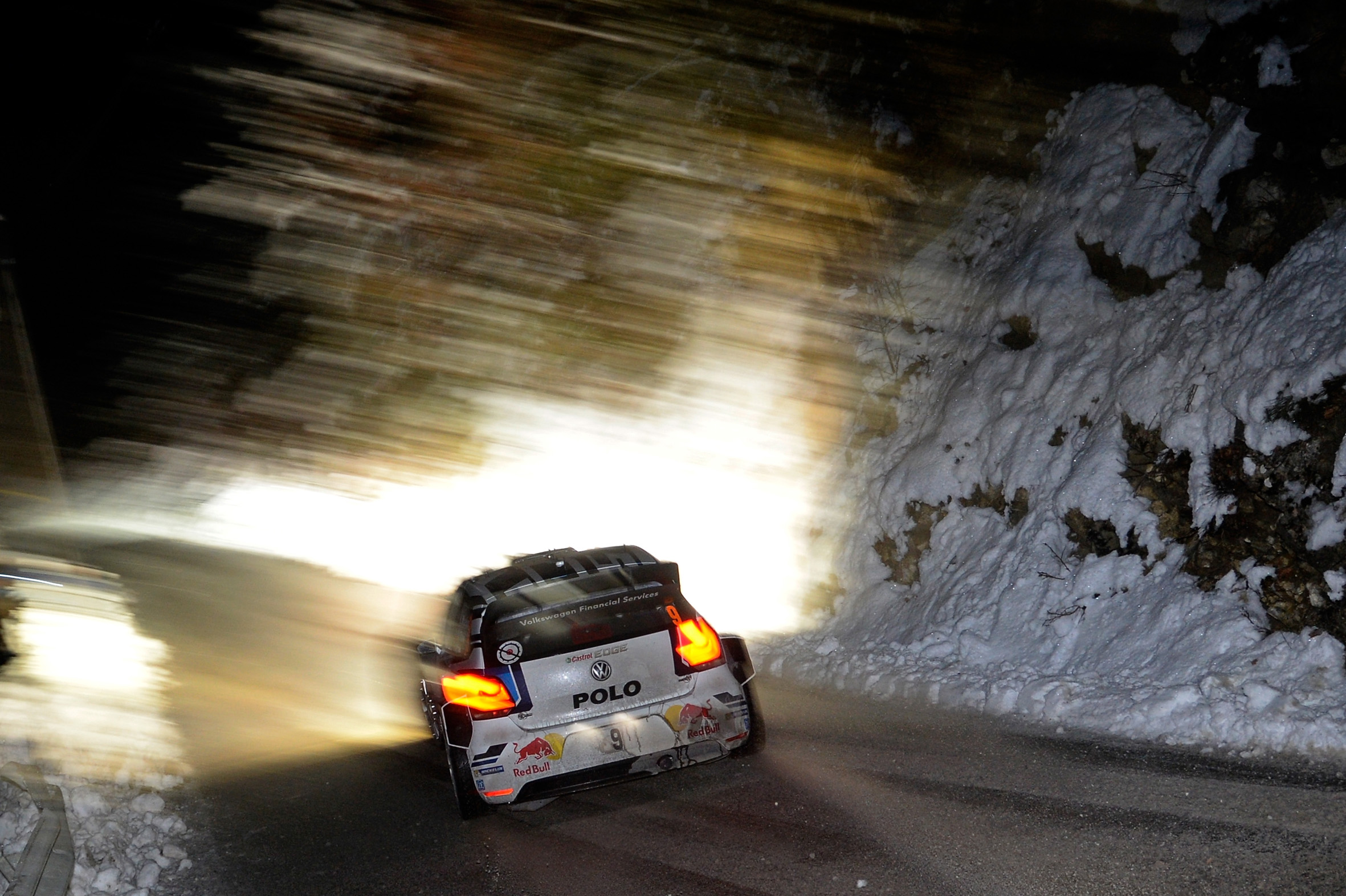 Andreas Mikkelsen (NOR) and co-driver Ola Fløene (NOR) in their Volkswagen Polo R WRC at the 2015 Rallye Automobile Monte-Carlo.